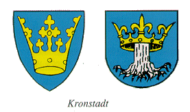 Old (left) and New (right, from XVIth century) CoA of Braşov